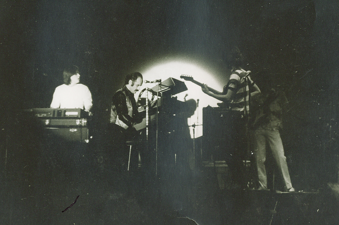 Laza Ristovski i Kornelije Kovač play keyboards, Niš (Serbia), middle 80's